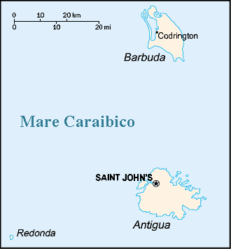 Map of Antigua and Barbuda; from en.wikipedia and translated to Italian by Renato Caniatti; from CIA Factbook